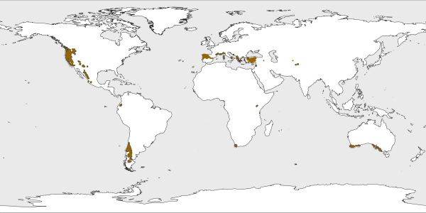 Mediterranean climate (Csb).